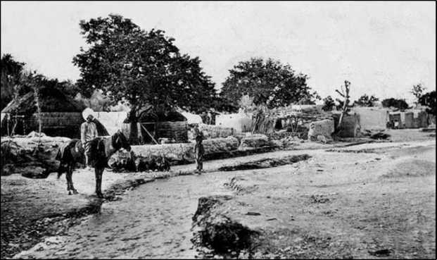 Aul near Ashgabat